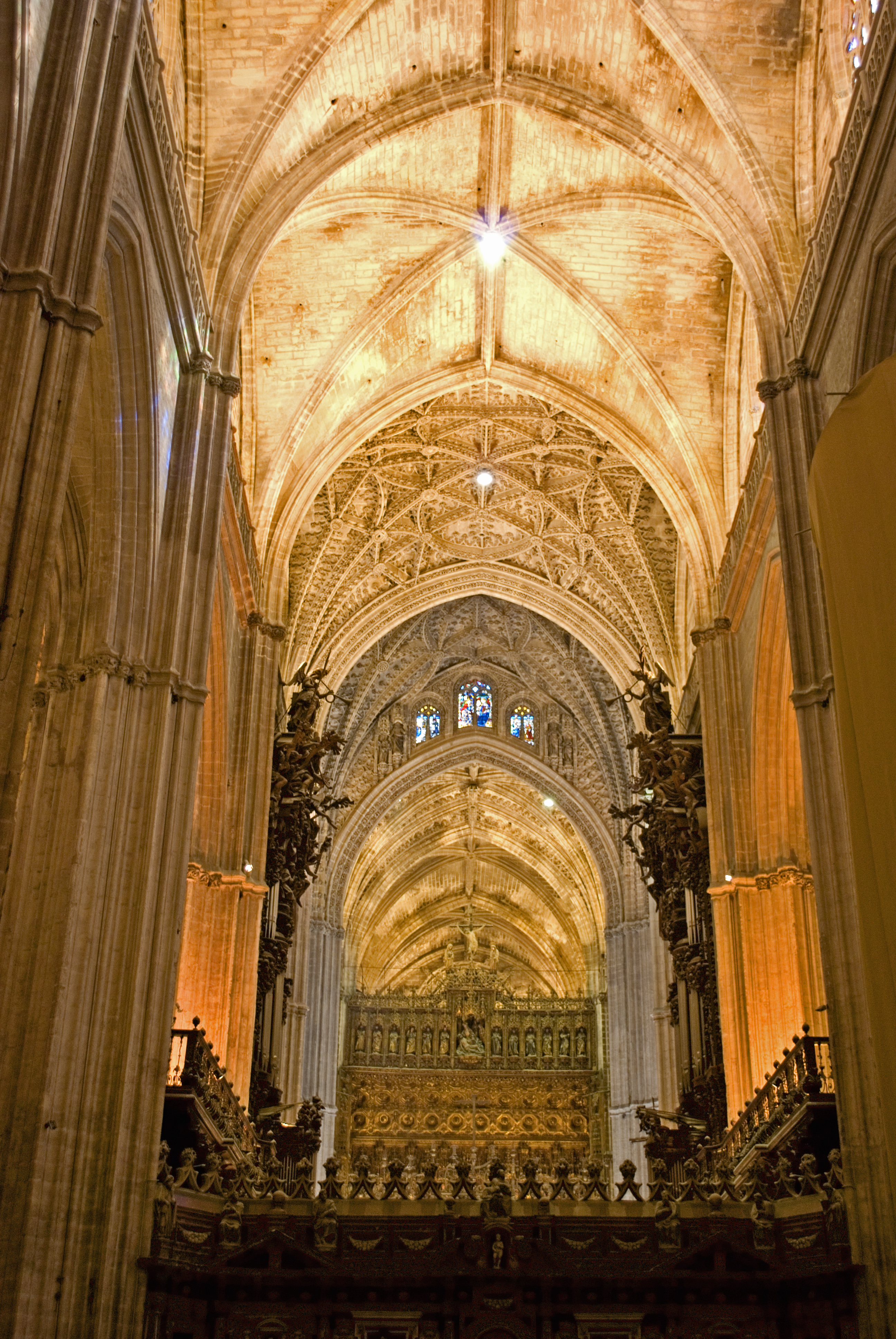 Interior of cathedral of Seville.